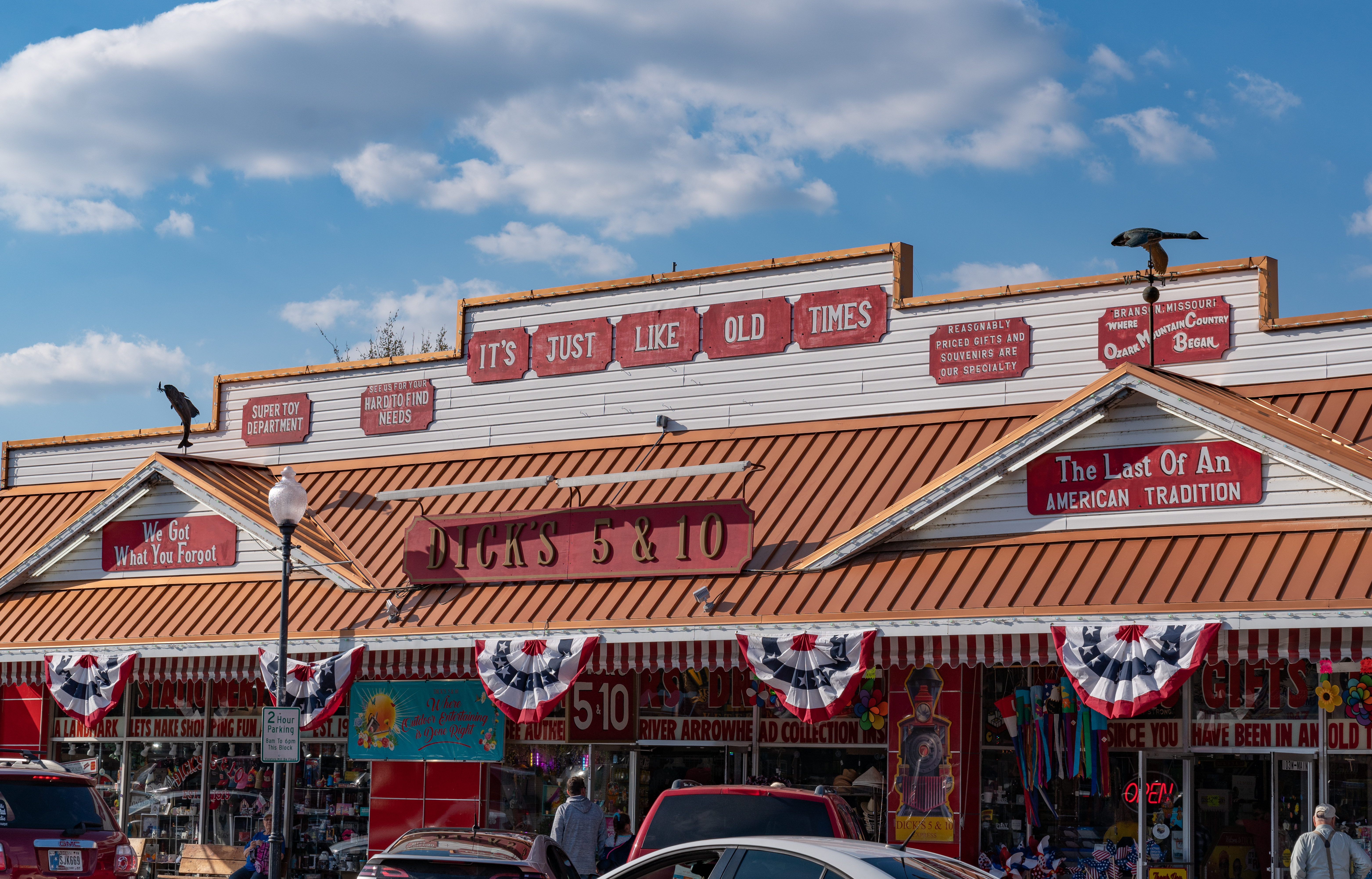 Dick's 5 & 10, a gift and souveniers shop in the central tourist area of downtown Branson, Missouri.